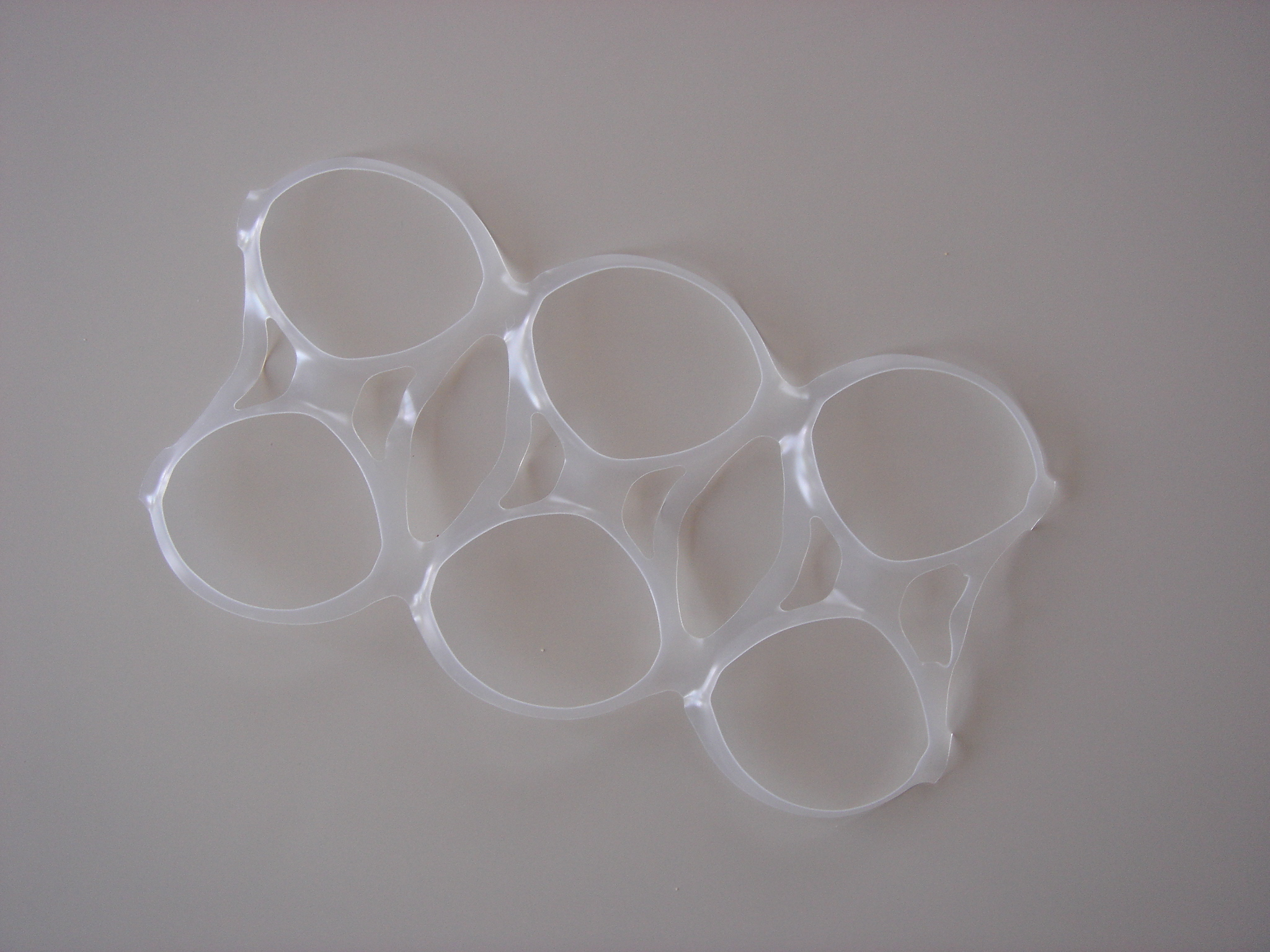 Six pack rings made of polyethylene